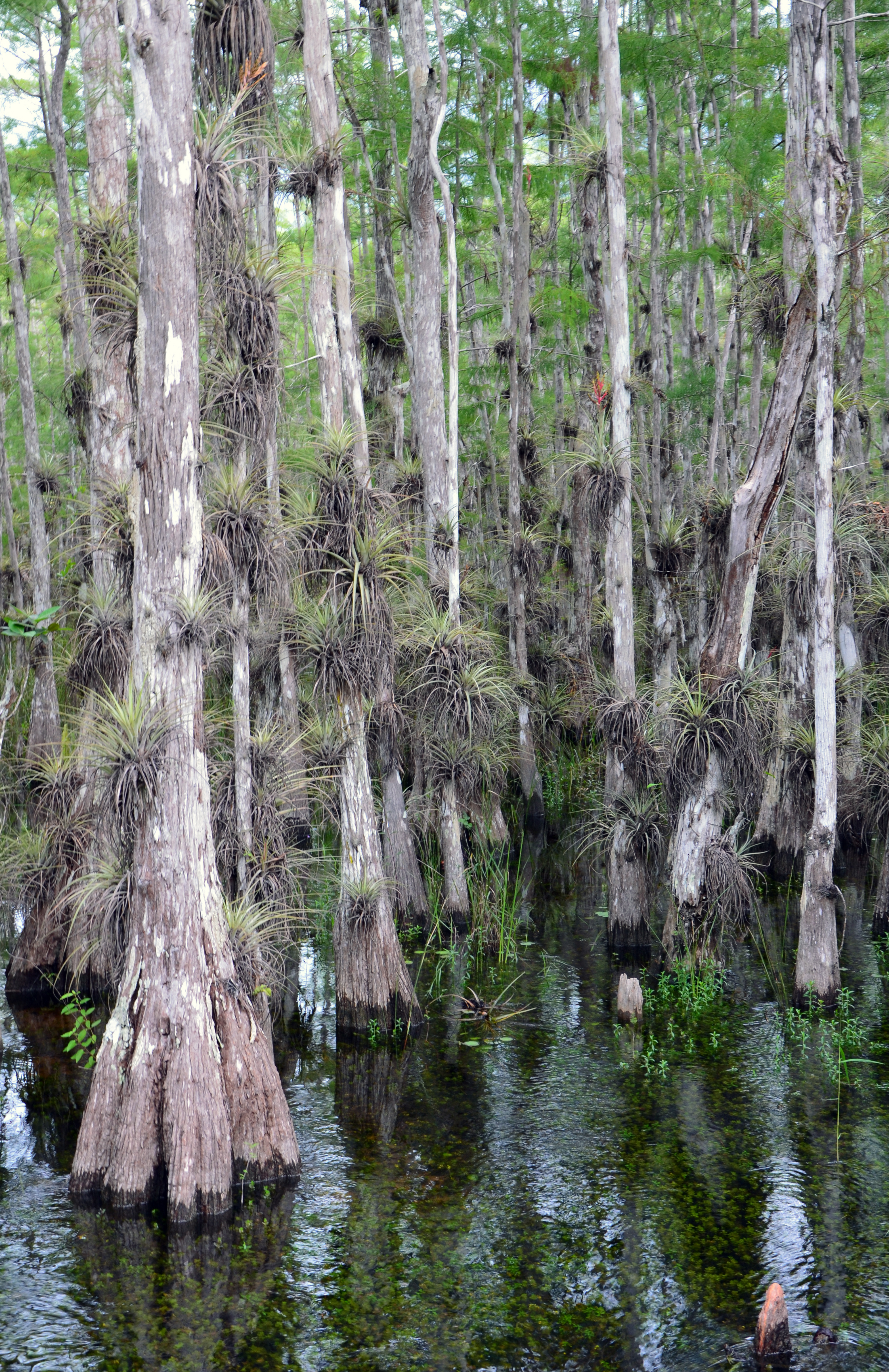 Pond cypress (Taxodium ascendens) in a slough, along the loop road of Big Cypress National Preserve (Florida, USA).